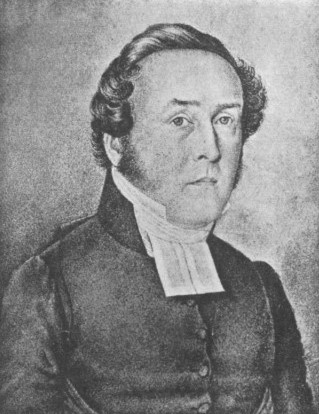 Swedish vicar, archaeologist and artist Nils Isak Löfgren (1797-1881)